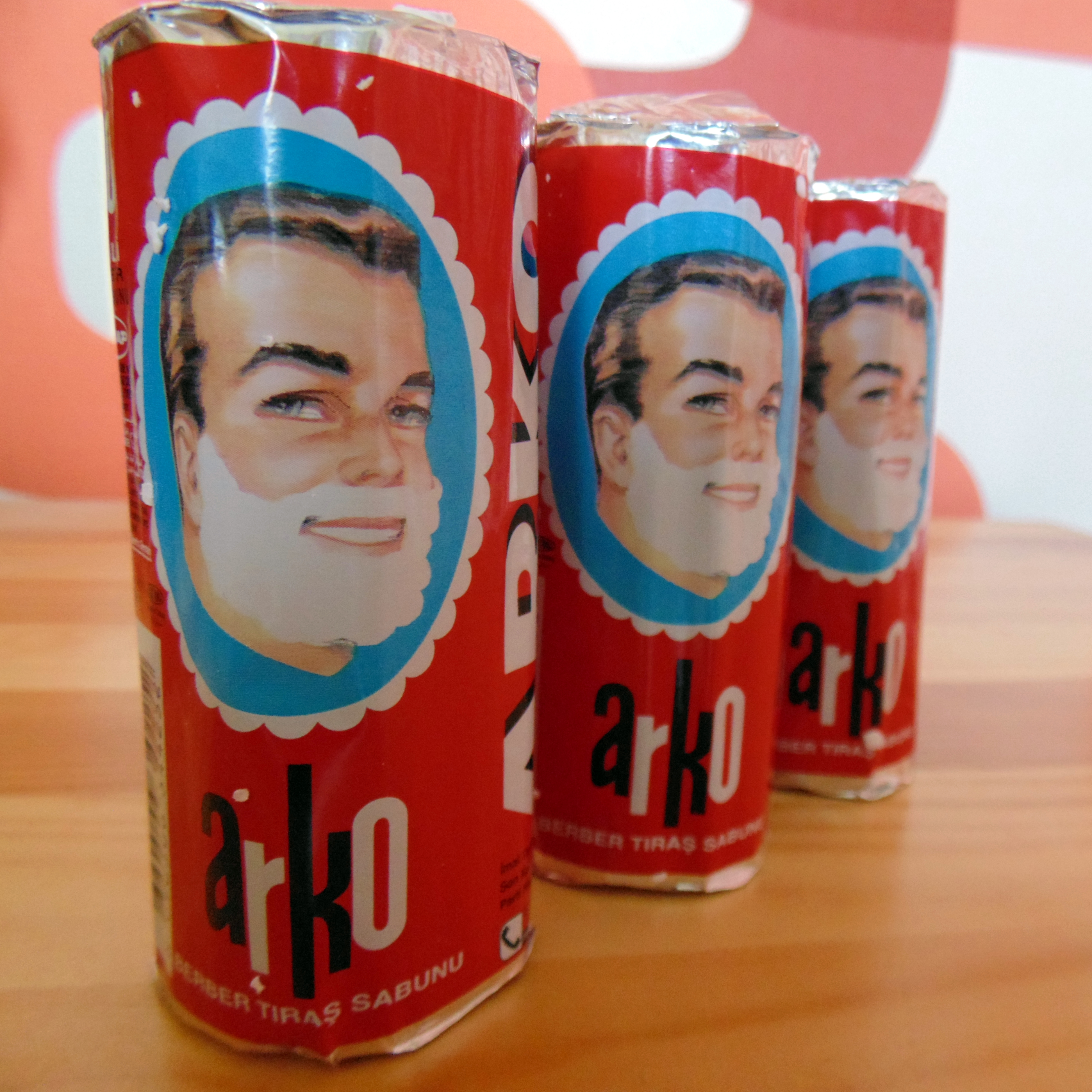 Sticks of Arko shaving soap.